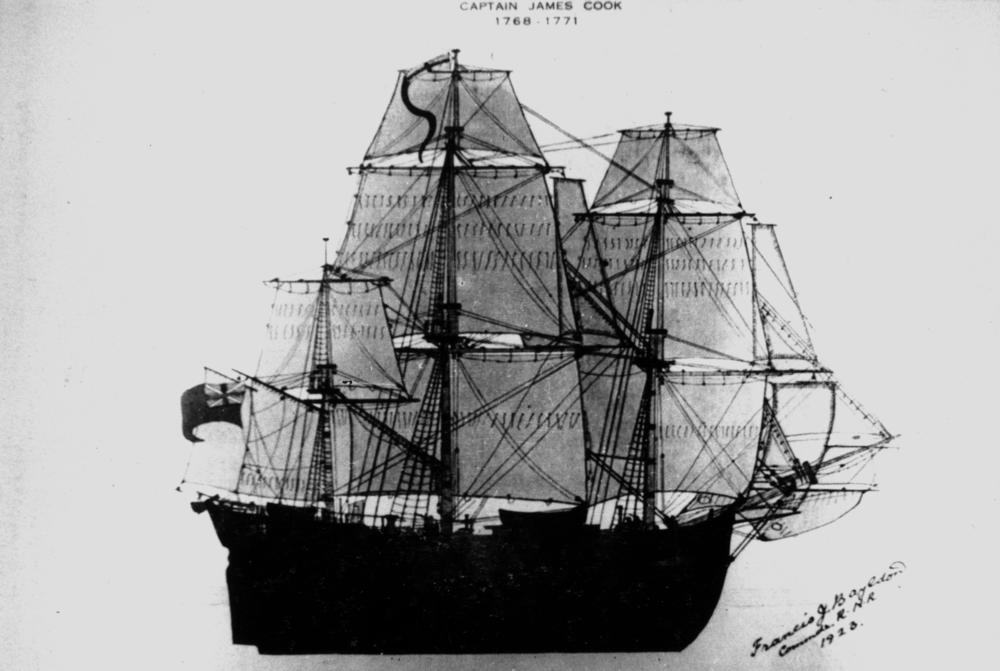 Endeavour (ship) Captain Cook's 'Endeavour'. Photograph signed by Francis J. Bayldon, Commander R.N.R. 1923.